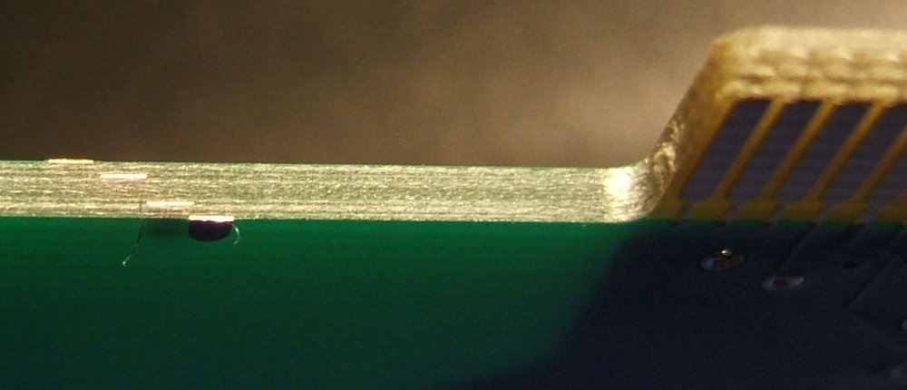 Multi layer printed circuit board with copper gold ISA